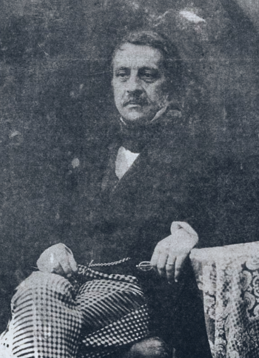 PM of Romania Constantin Al. Creţulescu